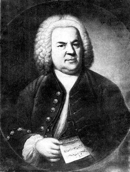 Copy of notorious 1746 Hausmann